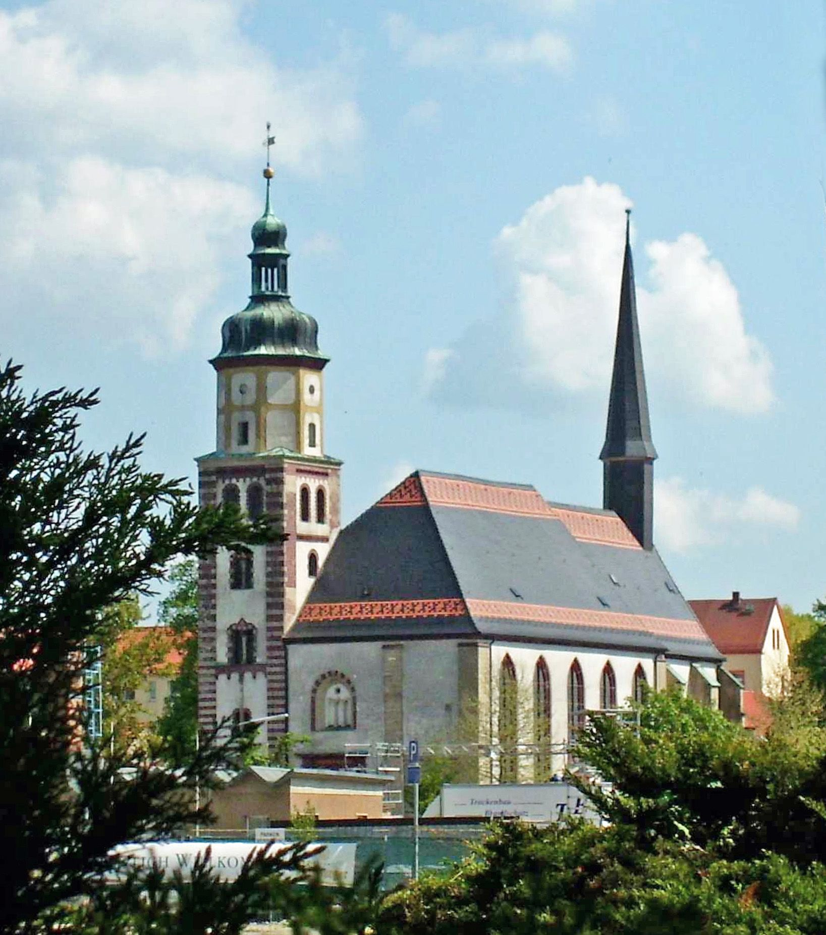 St. George Church at Rötha (Leipzig district, Saxony), view from the parc